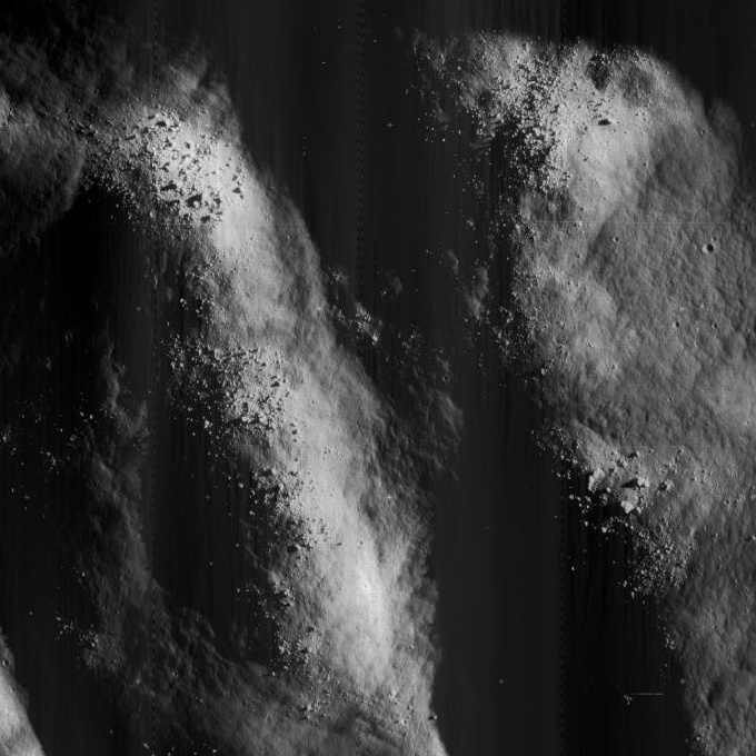 Bouldery surface in Vitello, on the moon.